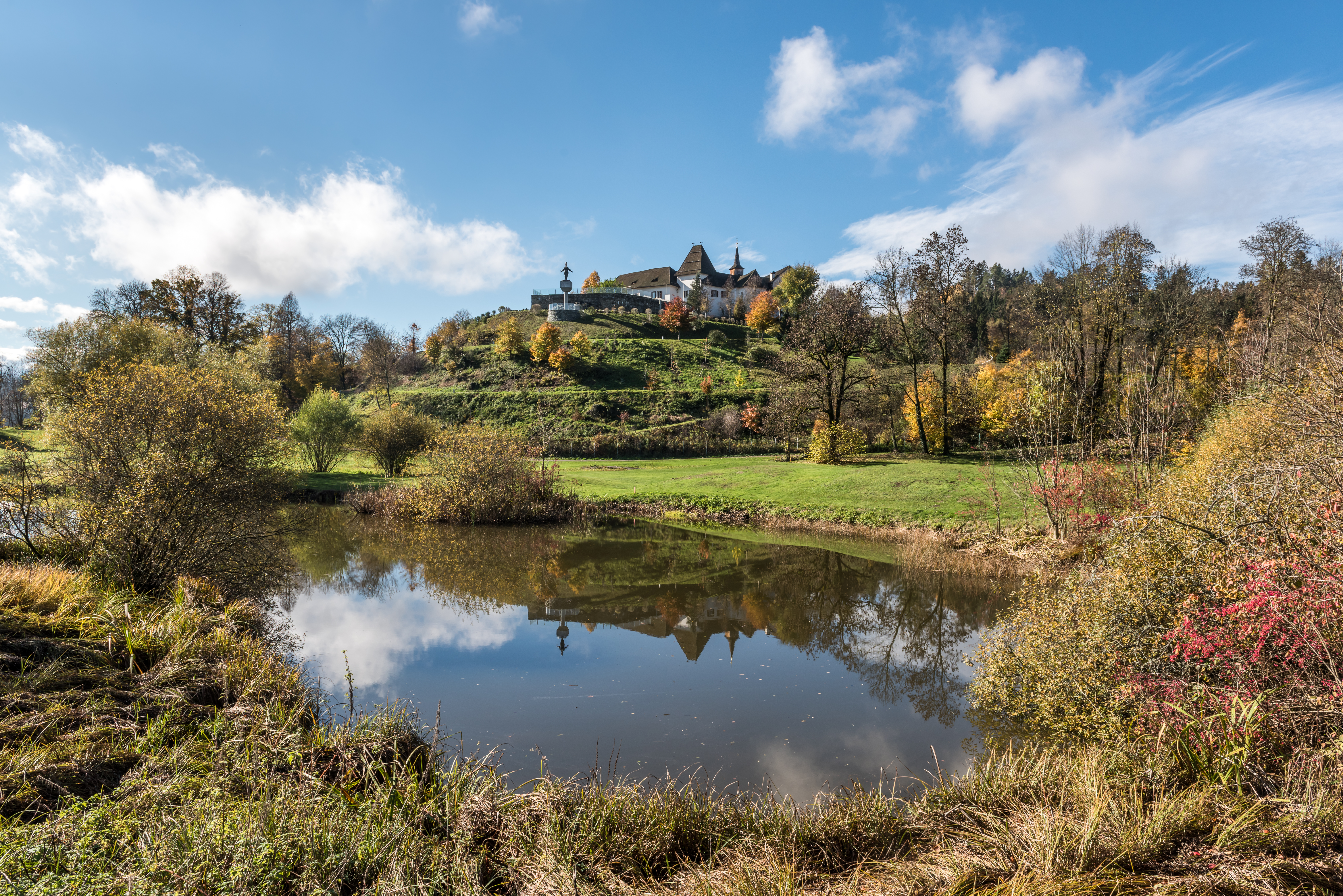 Eastern view of castle Seltenheim on Unterkröllstrasse #12, 14th borough Wölfnitz, municipality Klagenfurt, Carinthia, Austria, EU